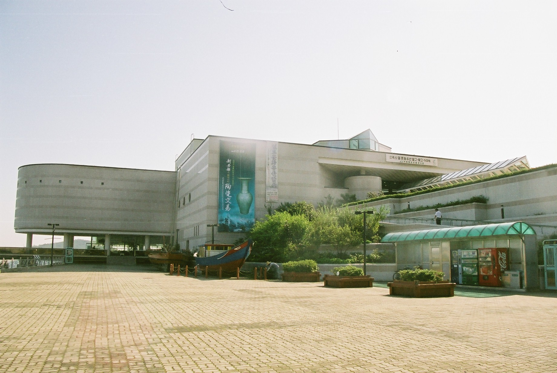 The building of Korean marine relic pavilion, in Mokpo, Jeolla-namdo, South Korea.